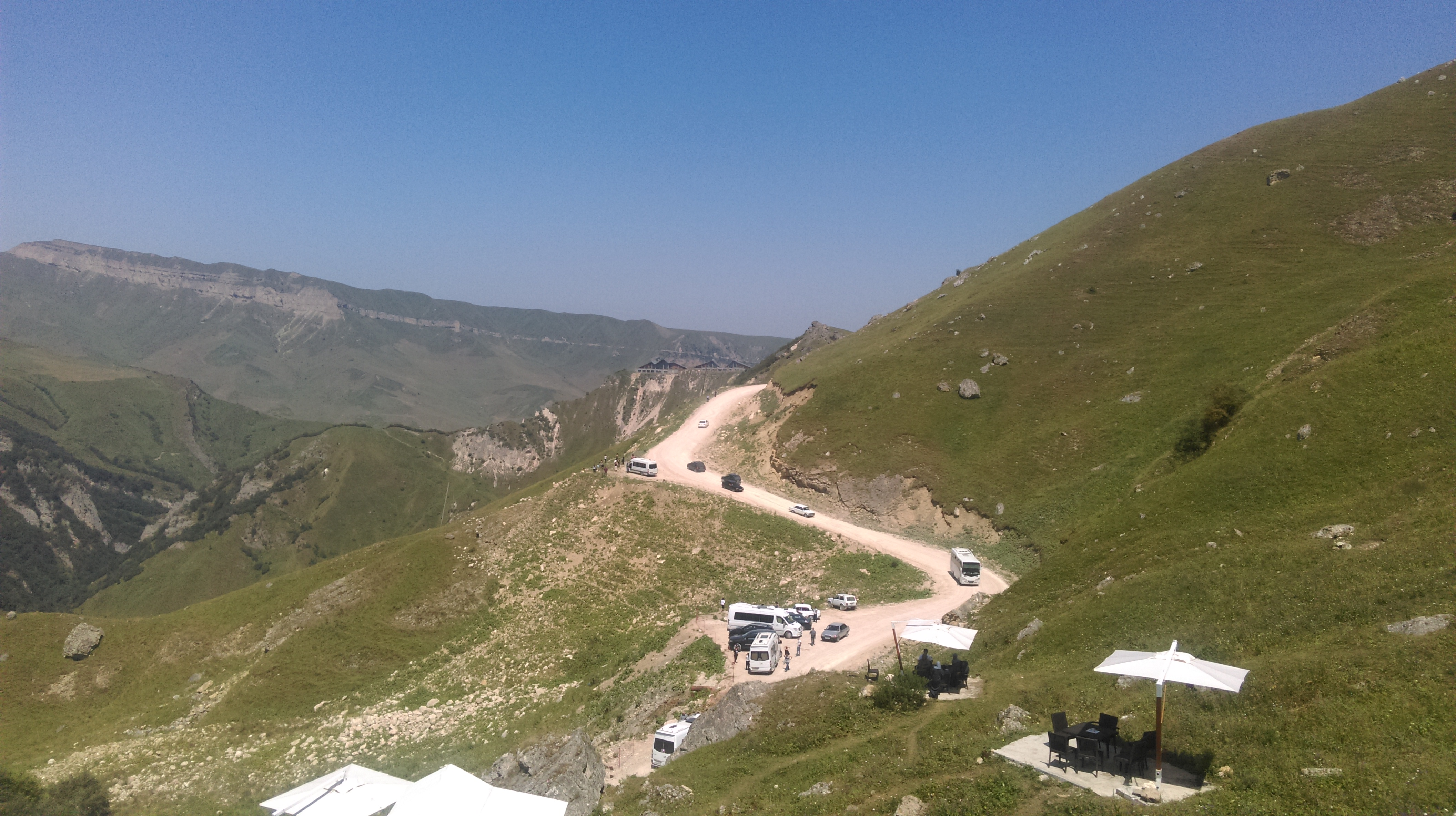 Qusar Azerbaijan قوسار